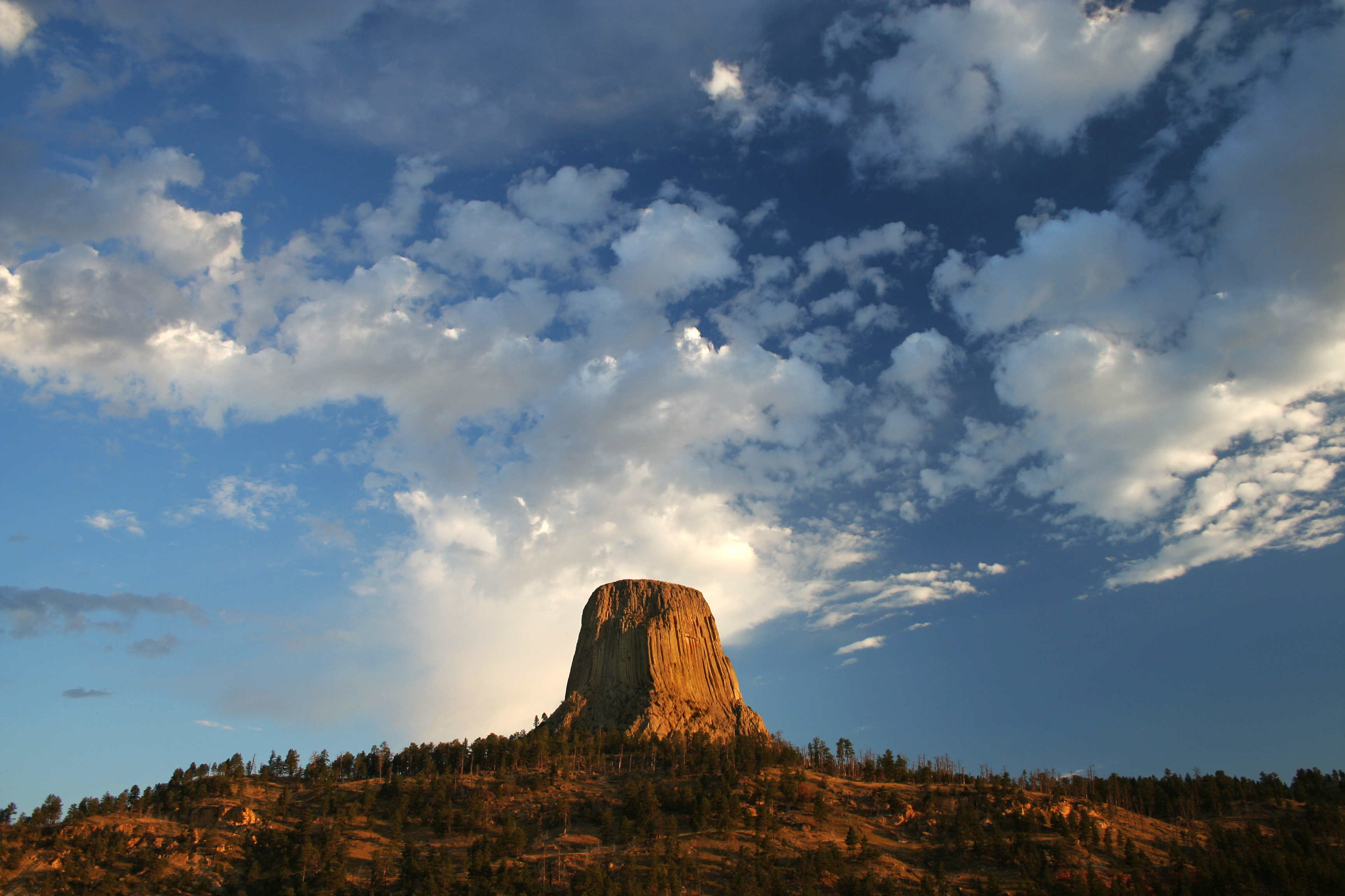 One of a series of shots taken at sunrise at Devil's Tower.